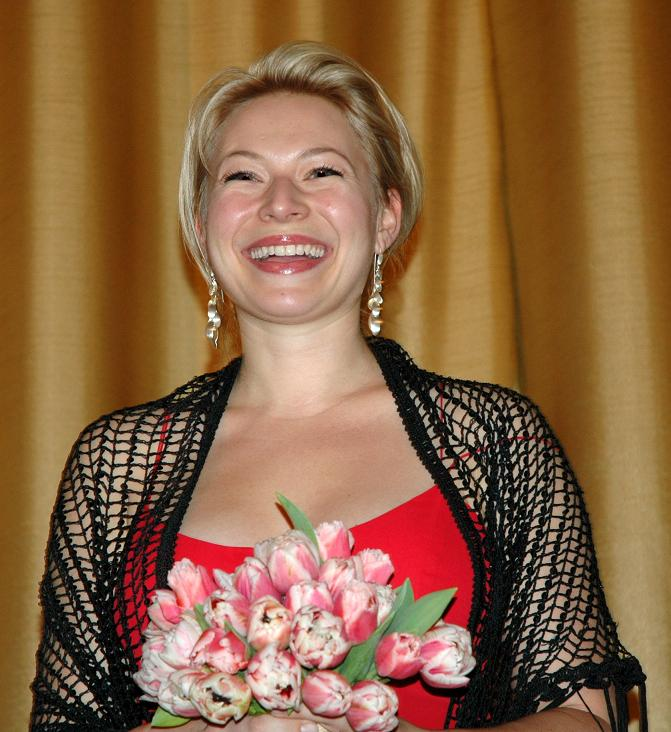 Swedish actress Frida Hallgren in Berlin 2005.